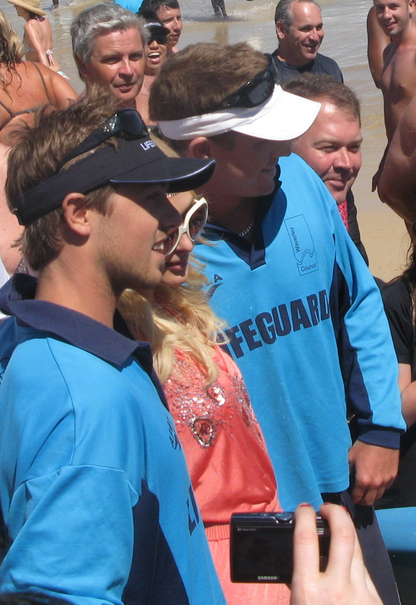 Bondi Rescue lifeguards, Dunstan "Dunno" Foss (black cap) and Ryan "Whippet" Clark (white cap), with Paris Hilton on Bondi Beach on New Year's Eve 2008. Photography by Charlotte Laforgue.